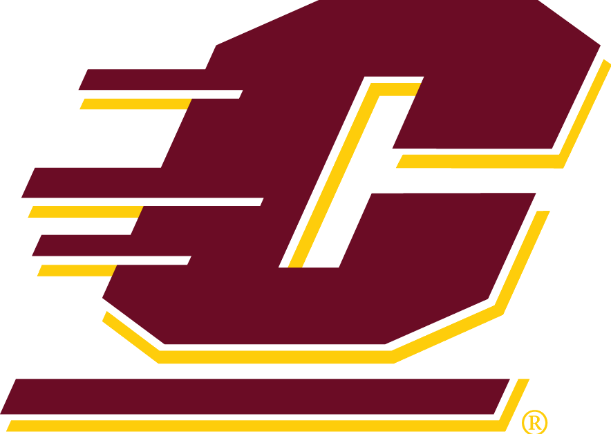 Athletics logo for Central Michigan University.